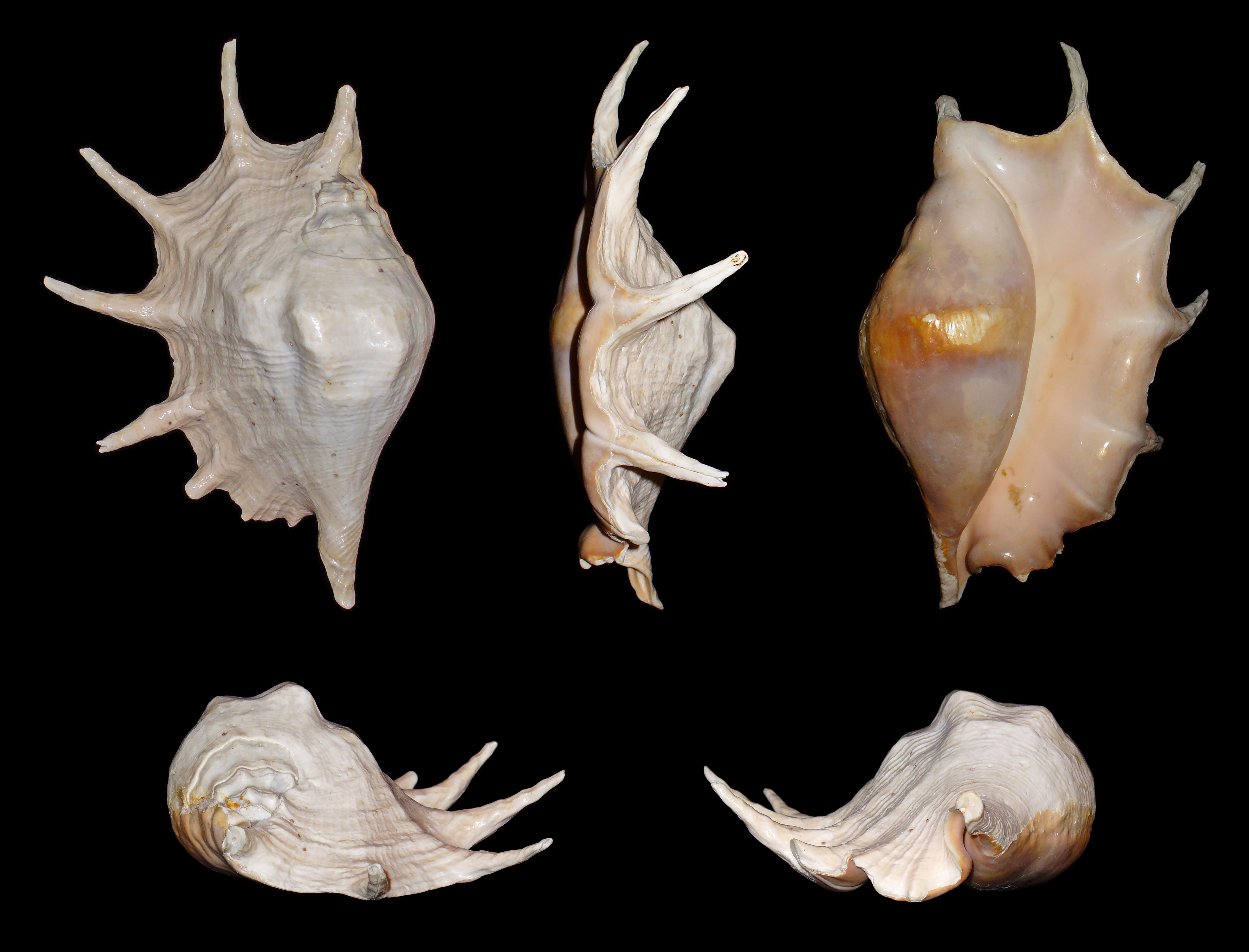 Giant Spider Conch, length 32 cm, originating from Indian Ocean, Mozambique. Own collection, therefore not geocoded.